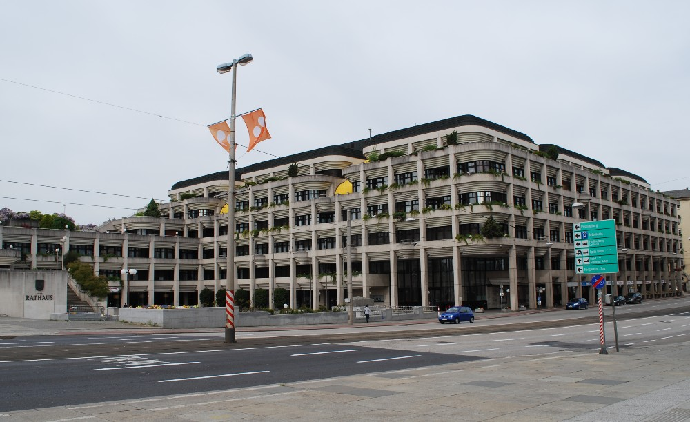 New City Hall of Linz, Upper Austria